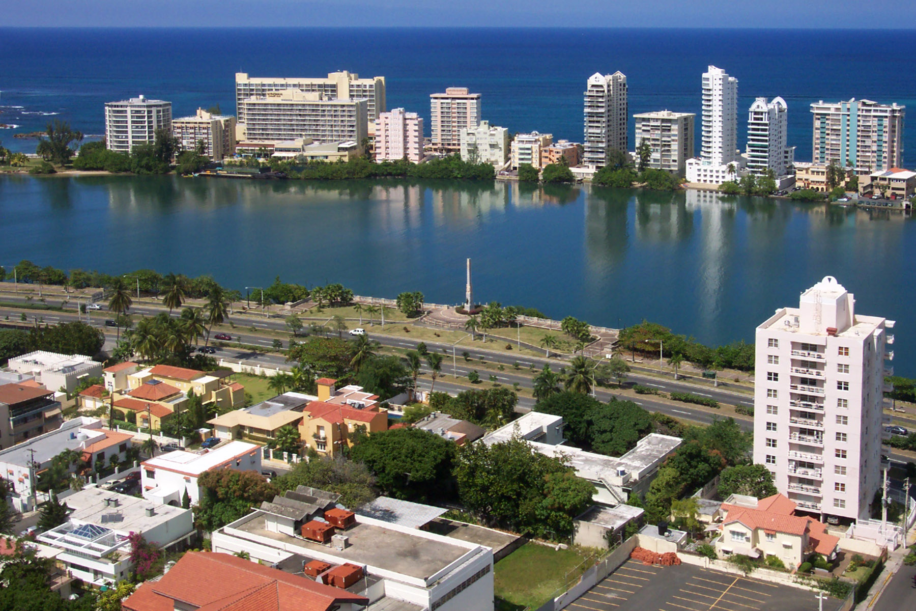 View of Miramar and Condado, two of the finest neighborhoods in Santurce.